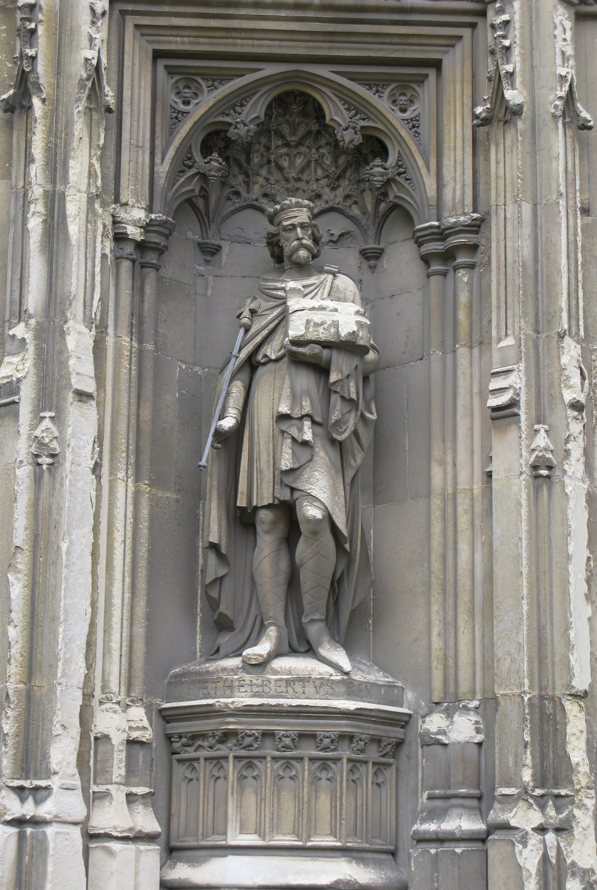 Sculpture of King Æthelberht of Kent, an Anglo-Saxon king and saint, on Canterbury Cathedral in England.